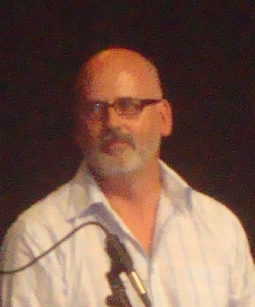 Joe Bennett (Lyttelton, on the left), Andrew Holden (editor of The Press) and Rod Oram (Auckland) at a panel discussion in Christchurch.